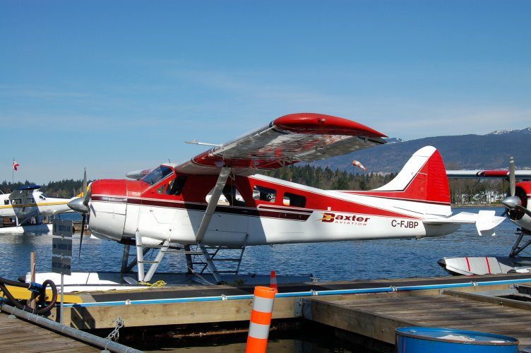 A deHavilland Beaver in Baxter Air livery, Vancouver.